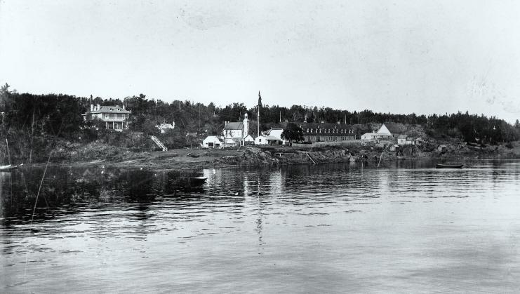 Photograph, St. Luc de Grosse Isle, quarantine station, QC, about 1910, Jules-Ernest Livernois, Silver salts on paper mounted on card - Collodion process - 12.7 x 17.8 cm